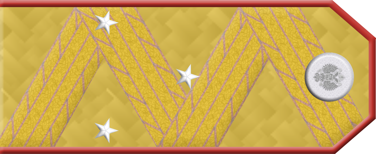 Rank insignia of the Imperial Russian Army 1909-1917, here collar patch "Lieutenant general".